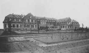 Reifensteiner Schule Luisenhof Wirtschaftliche Frauenschule, später Landfrauenschule Luisenhof bei Bärwalde in der Neumark 1914-1945 Besitzer Verwaltungsrat der Evangelischen Frauenhilfe e. V. mit Unterstützung der Kaiserin Auguste Viktoria. Dem Reifensteiner Verband seit 1914 angeschlossen